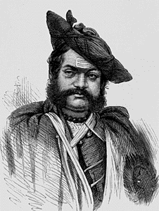 "The Maharajah Scindia of Gwalior" (r.1843-1886) as seen in the Illustrated London News, 1875 (downloaded Nov. 1999) From a longer story on the Prince of Wales's visit to India in 1875: "Another great native Prince, whose portrait we engrave, is Jyajee Rao Scindia, Maharajah of Gwalior. It has been observed on a former occasion, when speaking of the Maharajah Holkar of Indore, that these Maharatta potentates of Western India are now valuable allies of the British Government. Scindia was overthrown in the Sepoy War of 1858, by a rebellion headed by Tantia Topee and the Dowager Princess of Jhansi, at the instigation of the Nana Sahib. He was restored by the British force under Sir Hugh Rose, now Lord Strathnairn, who stormed the rock-fortress of Gwalior. The Maharattas, till their defeat by Lord Lake and other British commanders, at the beginning of this century, possessed the greater part of the Deccan, and Poonah was the capital of their dominion."